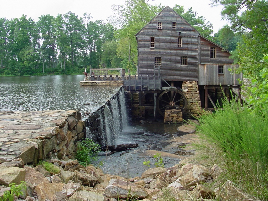 Yates Mill in North Carolina